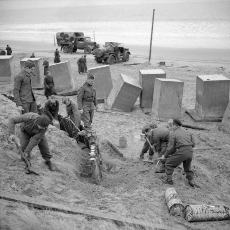 Allied Forces in the United Kingdom 1939-45 Engineers of the 1st Rifle Brigade (1st Polish Corps) constructing beach defences at Tentsmuir in Scotland. The concrete blocks were used as anti-tank obstacles.